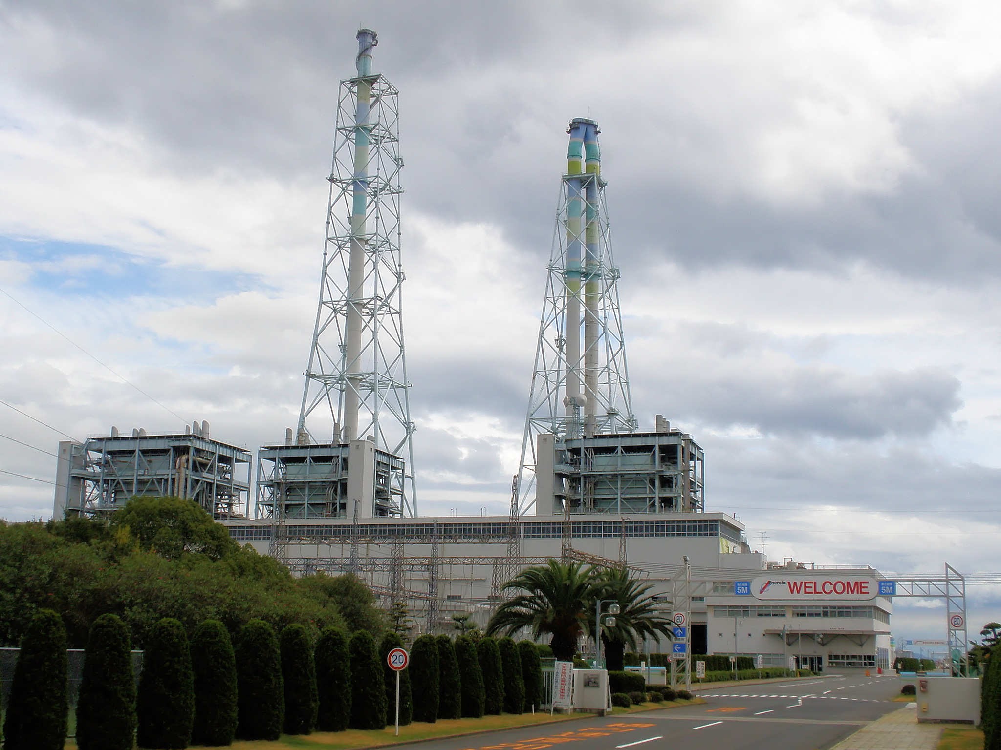 Chugoku electric power Tamashima power station, Kurashiki, Okayama.